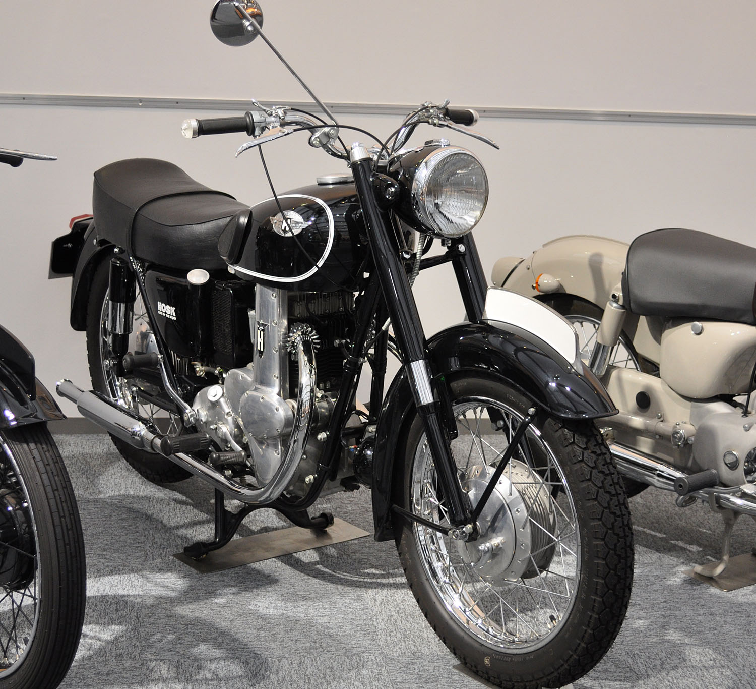 YamadaRinseikan Hosk 500 DA (1955)